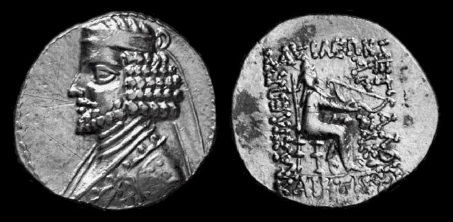 Coin of Orodes II of Parthia from the mint at Seleucia on the Tigris. The reverse shows a seated archer with a bow. The Greek inscription reads ΒΑΣΙΛΕΩΣ ΒΑΣΙΛΕΩΝ ΑΡΣΑΚΟΥ ΜΕΓΑΛΟΥ ΚΑΙ ΚΤΙΣΤΟΥ (king of kings, great Arsaces, and founder).